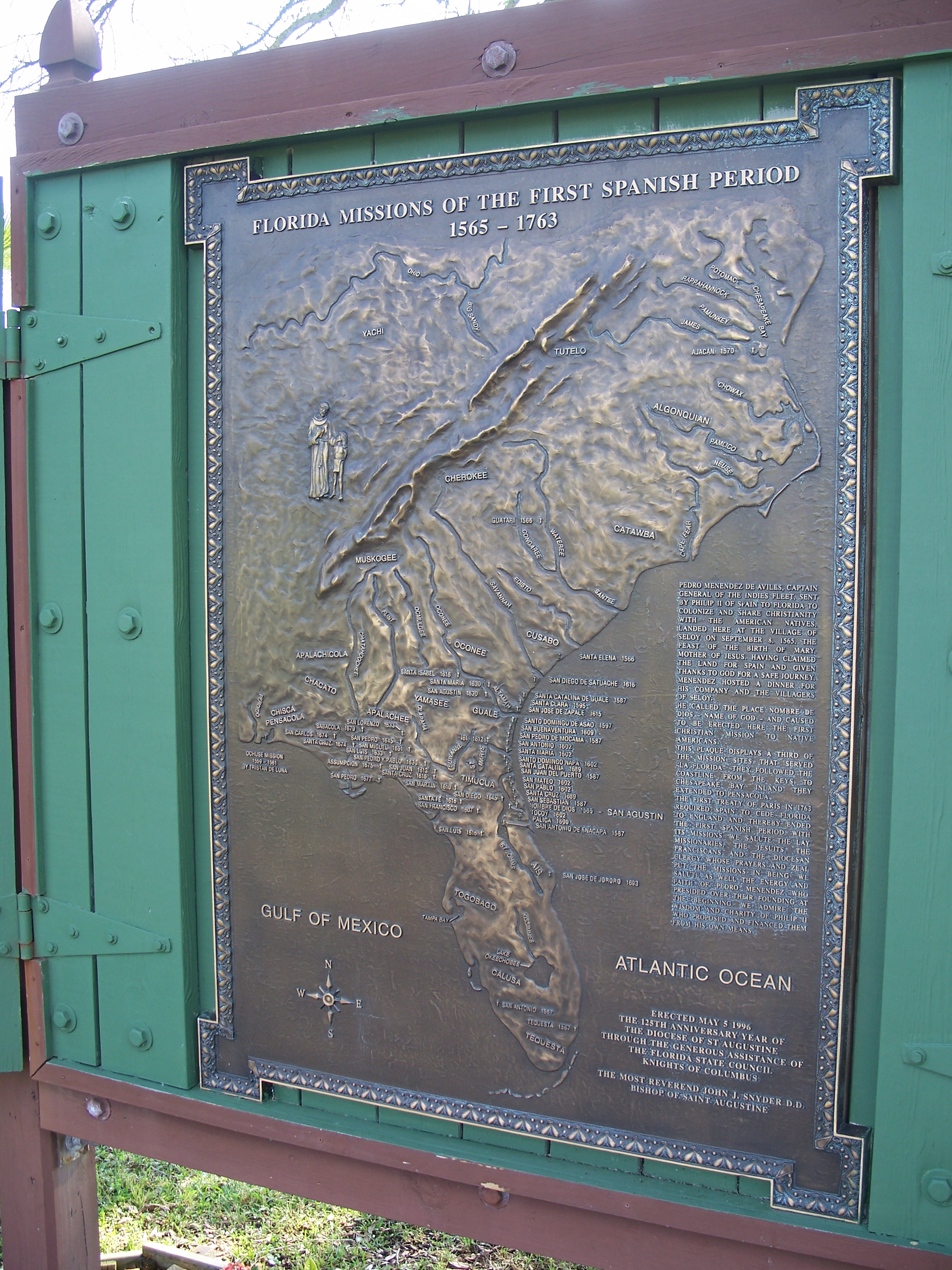 St. Augustine, Florida: Mission Nombre de Dios site. Approximate location of where Pedro Menéndez de Avilés landed in 1565, after which he founded St. Augustine. A plaque showing the locations of a third of the Spanish Missions, focusing on what is now the southeast United States. The plaque is titled Florida Missions of the First Spanish Period 1565 - 1763.